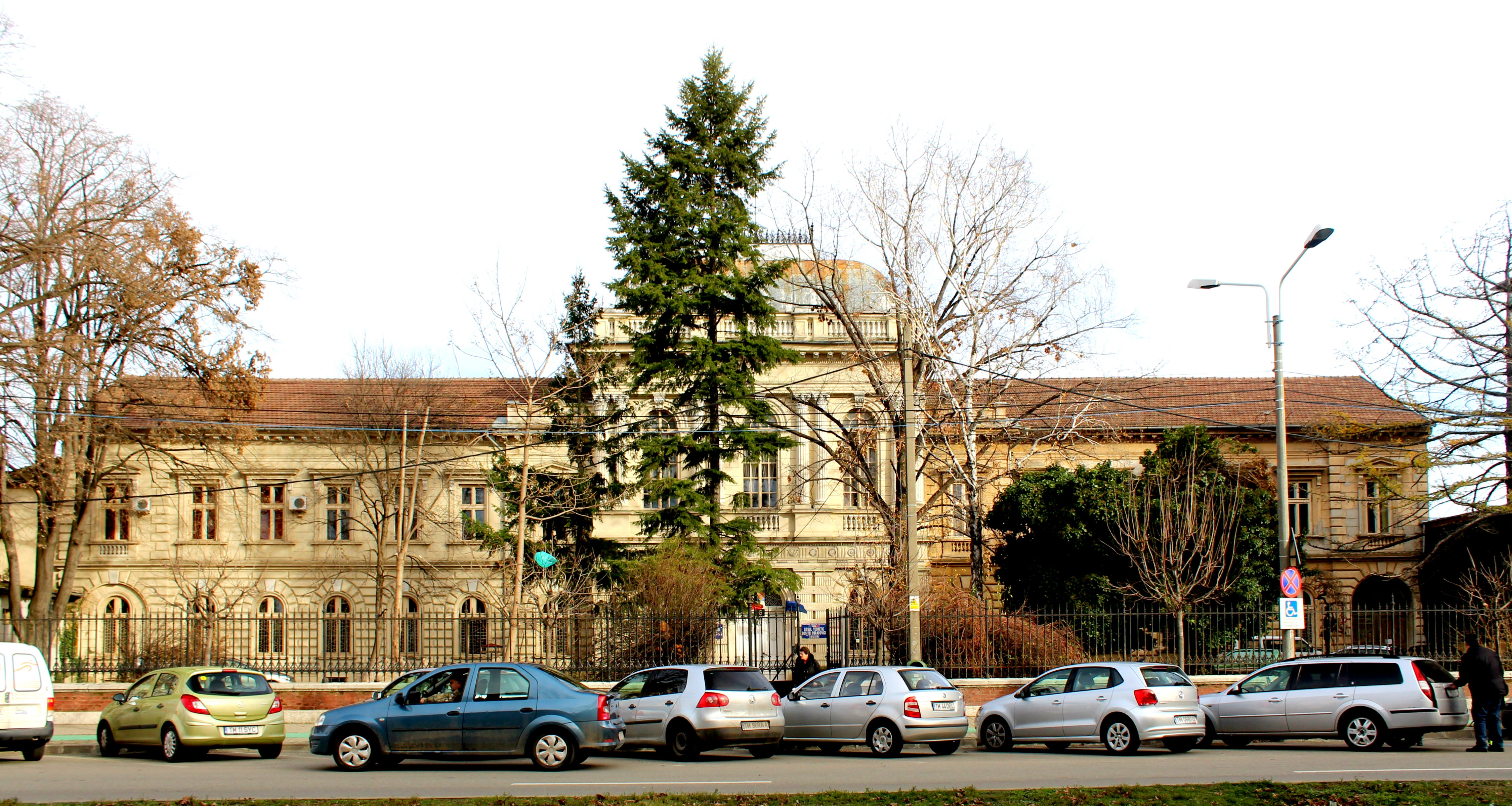 "Dositei Obradovici" Highschool, Timișoara, Romania, built in 1881